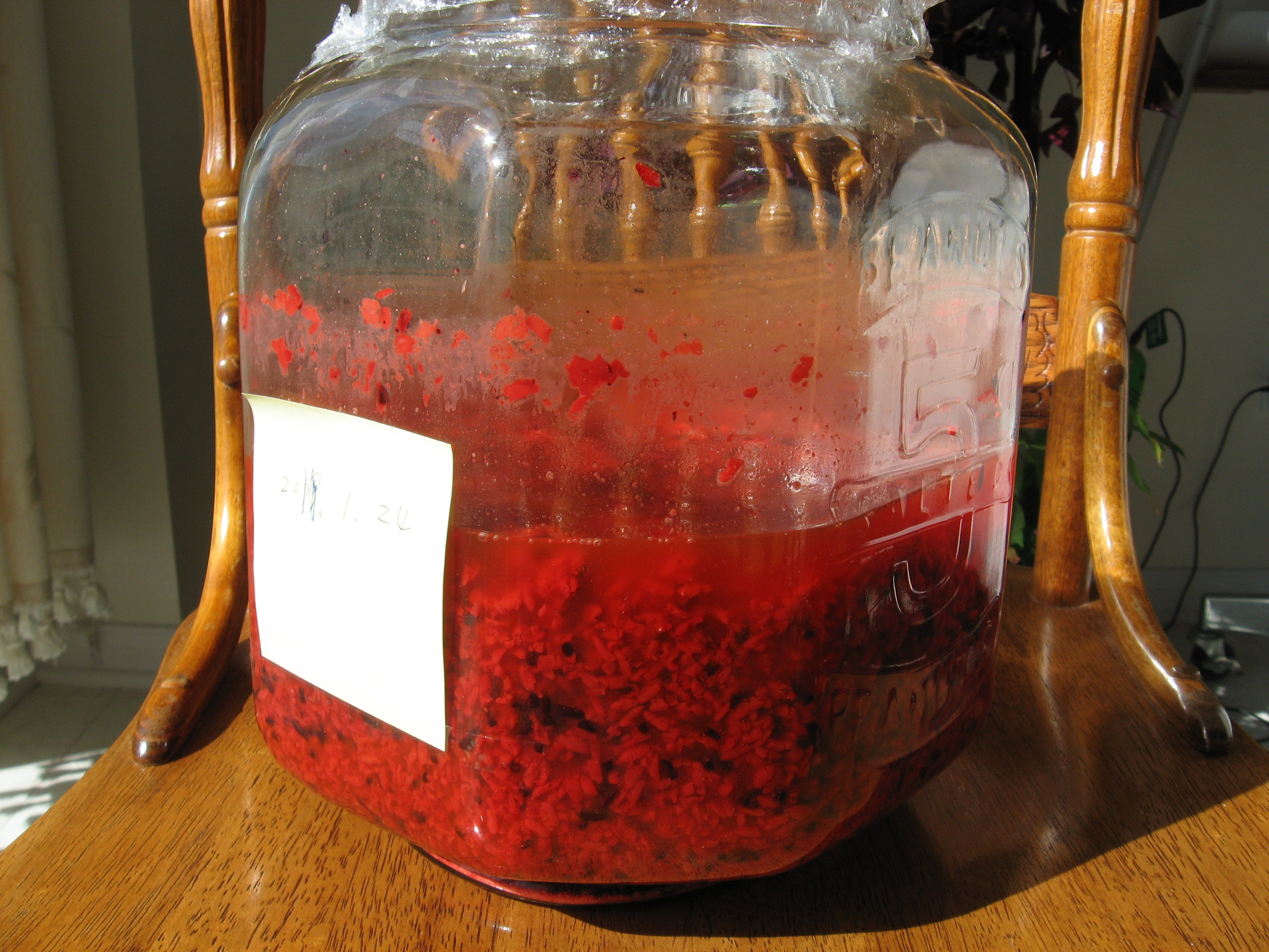 red rice3 wine before filtering 2 -months old